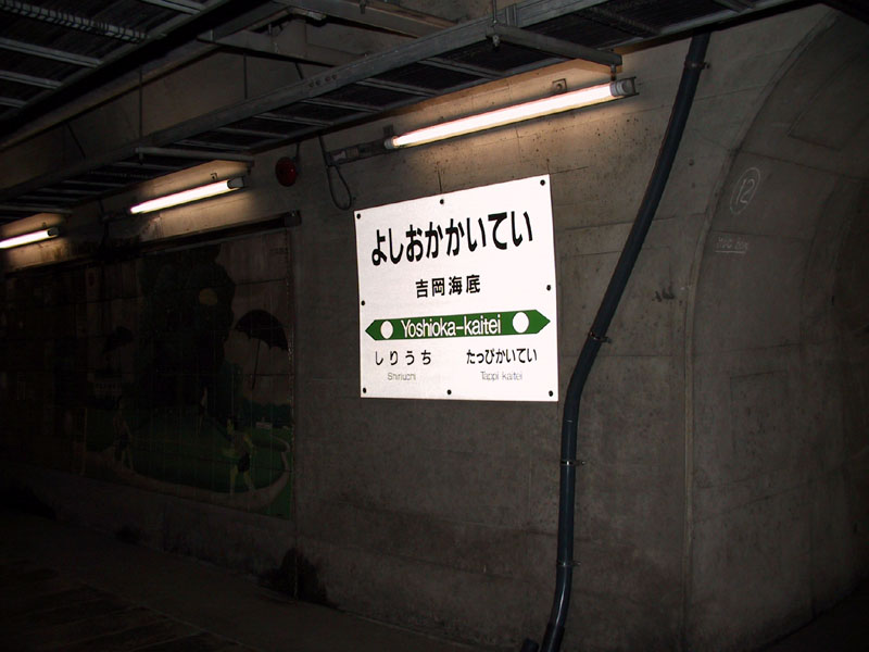 吉岡海底車站的月台標誌The wall (platform) sign of Yoshioka Kaitei Station